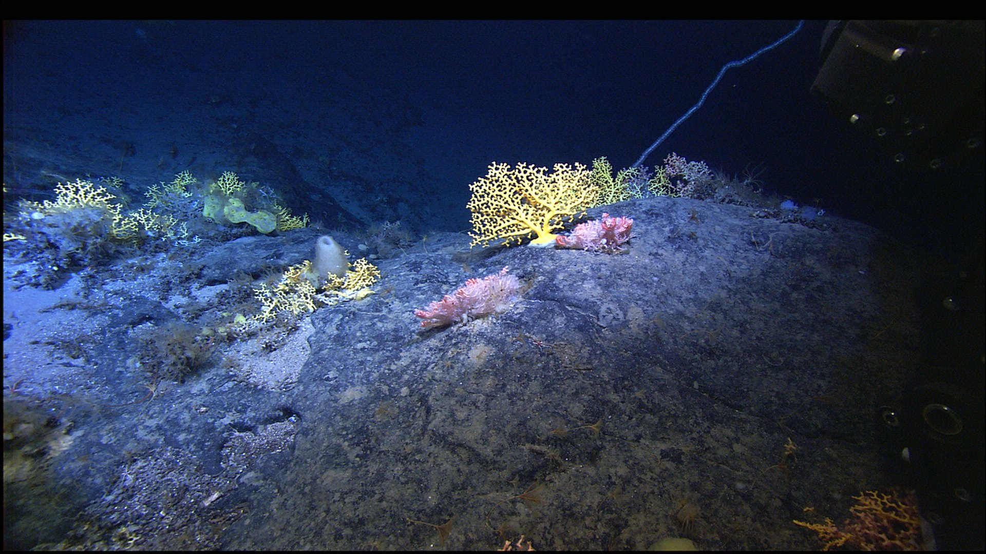 Mountains in the Sea Expedition. Field of yellow Enallopsammia stony coral and pink Candidella, with various sponges, whip coral, and brittle stars. New England Seamount Chain.